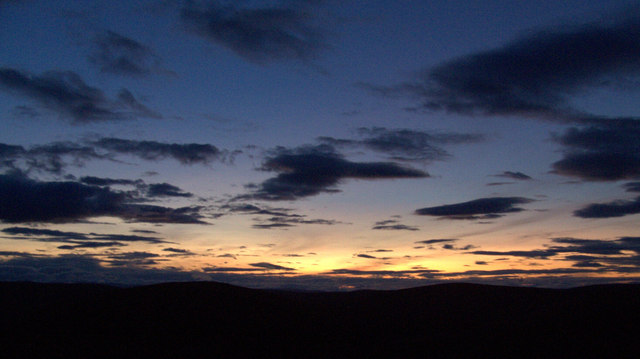 Sunset above the Mounth From the slopes of Hunt Hill a clear view can be had across the plateau of the Mounth.